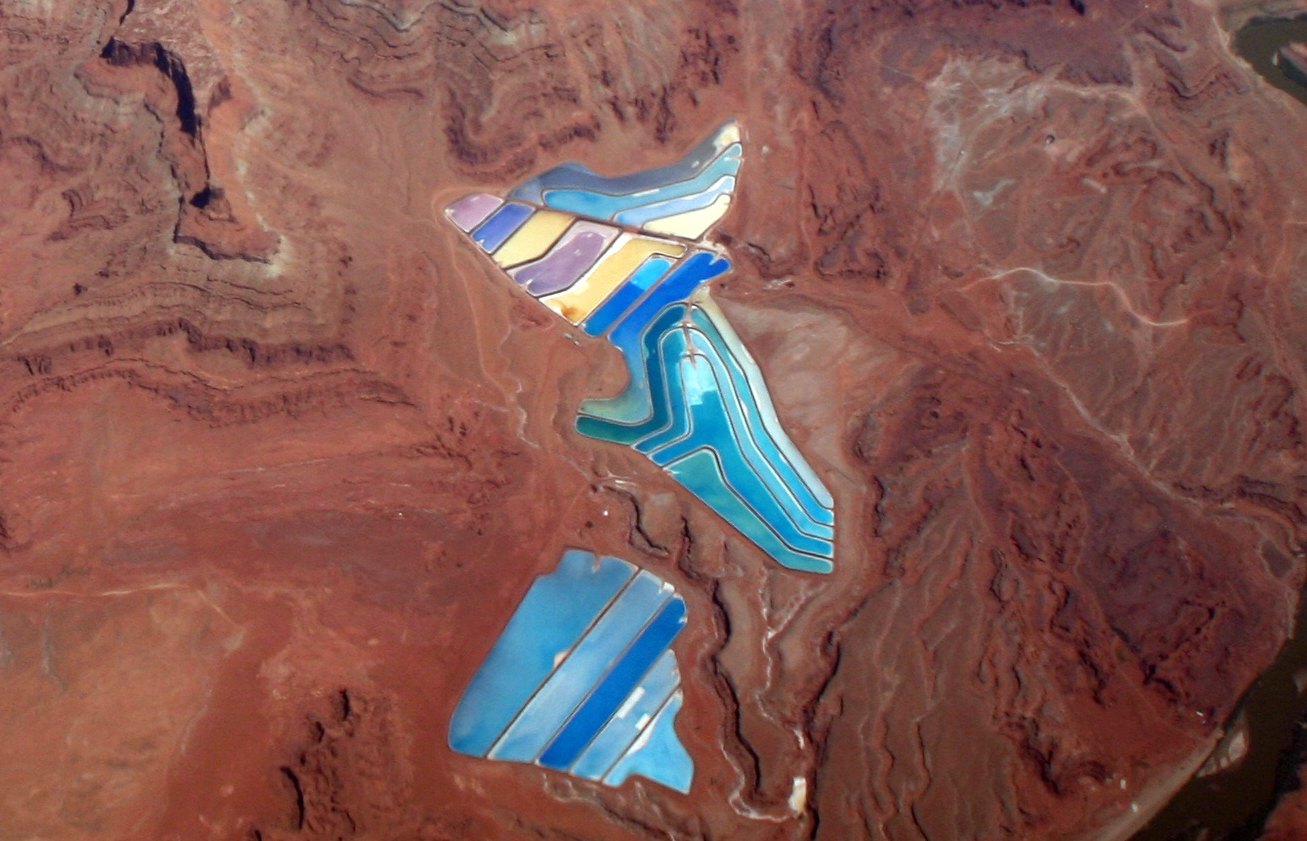 Intrepid Potash 's Moab evaporation ponds #1, #2 and #3 (top to bottom — 1 and 2 are connected) near the Colorado River in Utah in the Glen Canyon Recreation Area, beside Canyonlands Natonal Park. #1 is the pointy top one, joining #2.